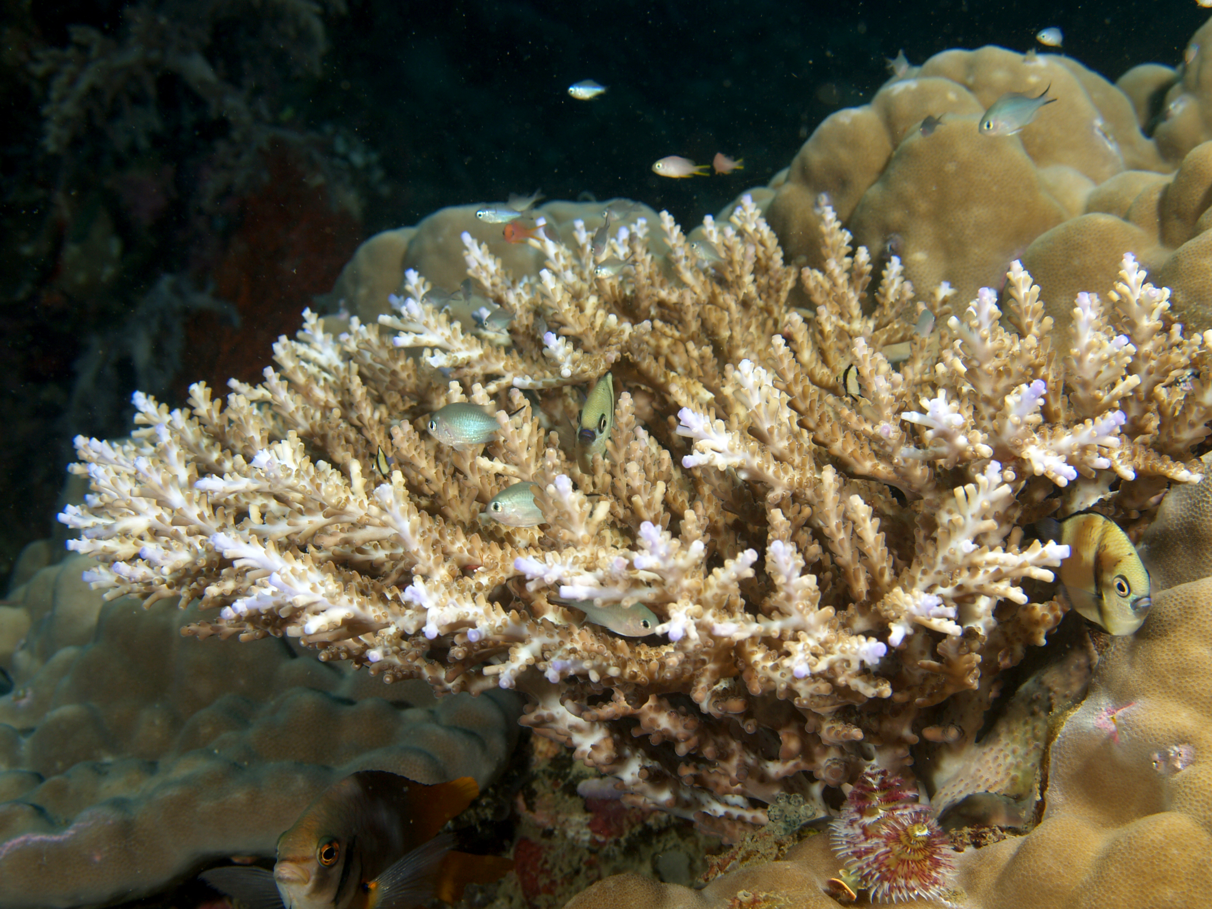 Acropora nasuta (Hard coral) often used by small fish to hide in